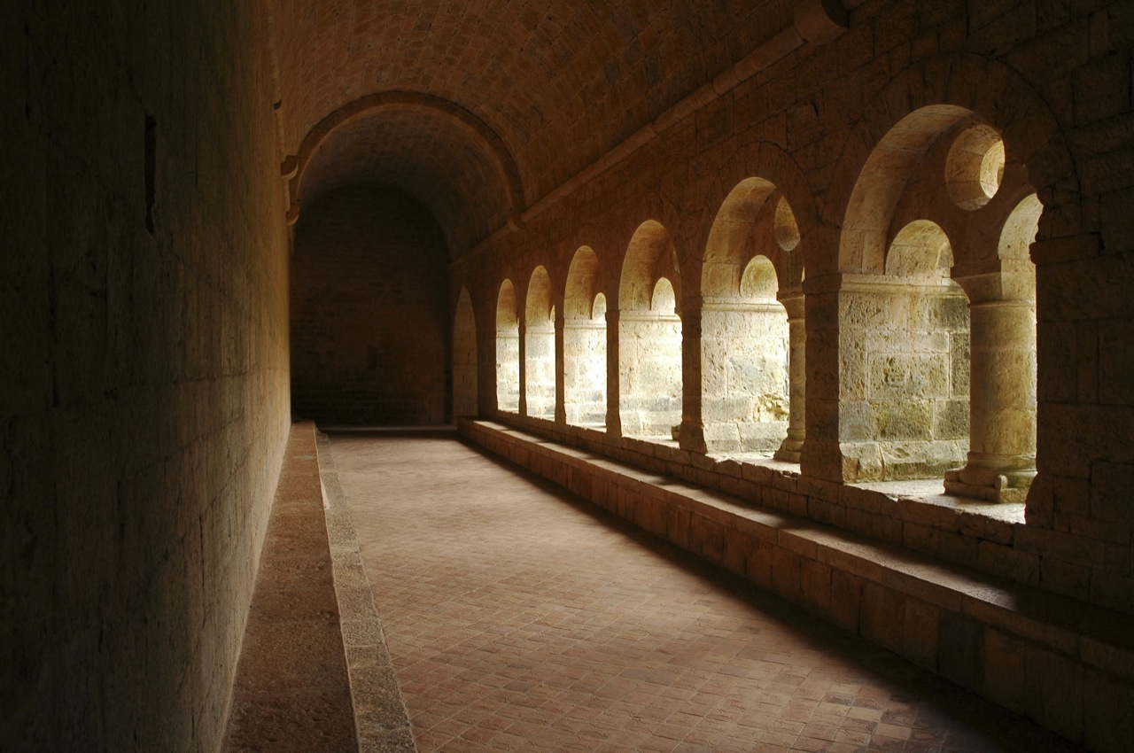 Cloister of the cistercian abbey of Le Thoronet (Var, France)